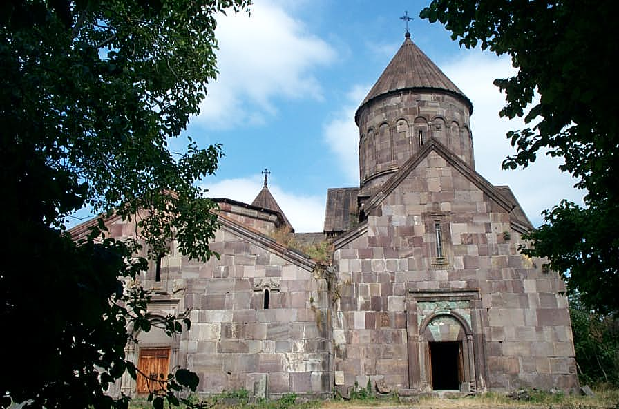 General view of Makaravank Monastery in Armenia.